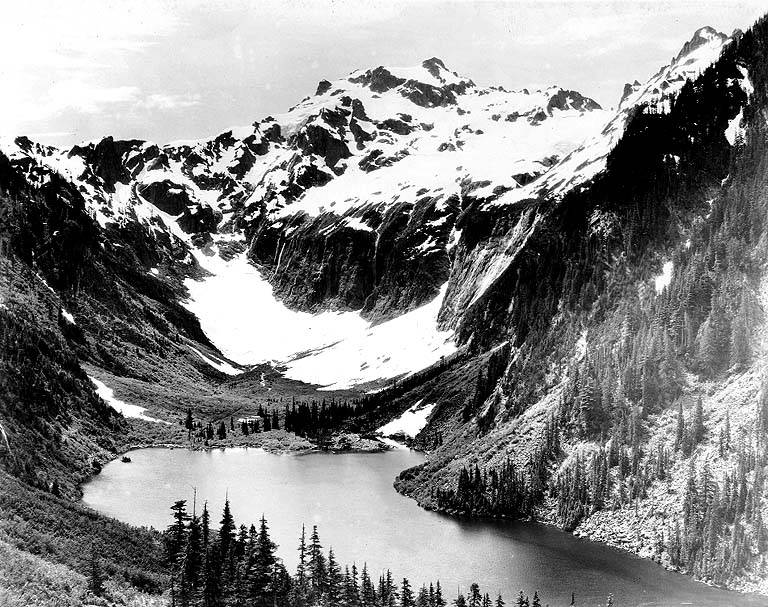 Caption on image: Juleen Studio Everett, Washington On verso of image: Goat Lake PH Coll 1470.16 Subjects (LCSH): Goat Lake (Wash.); Lakes--Washington (State)--Snohomish County; Cascade Range